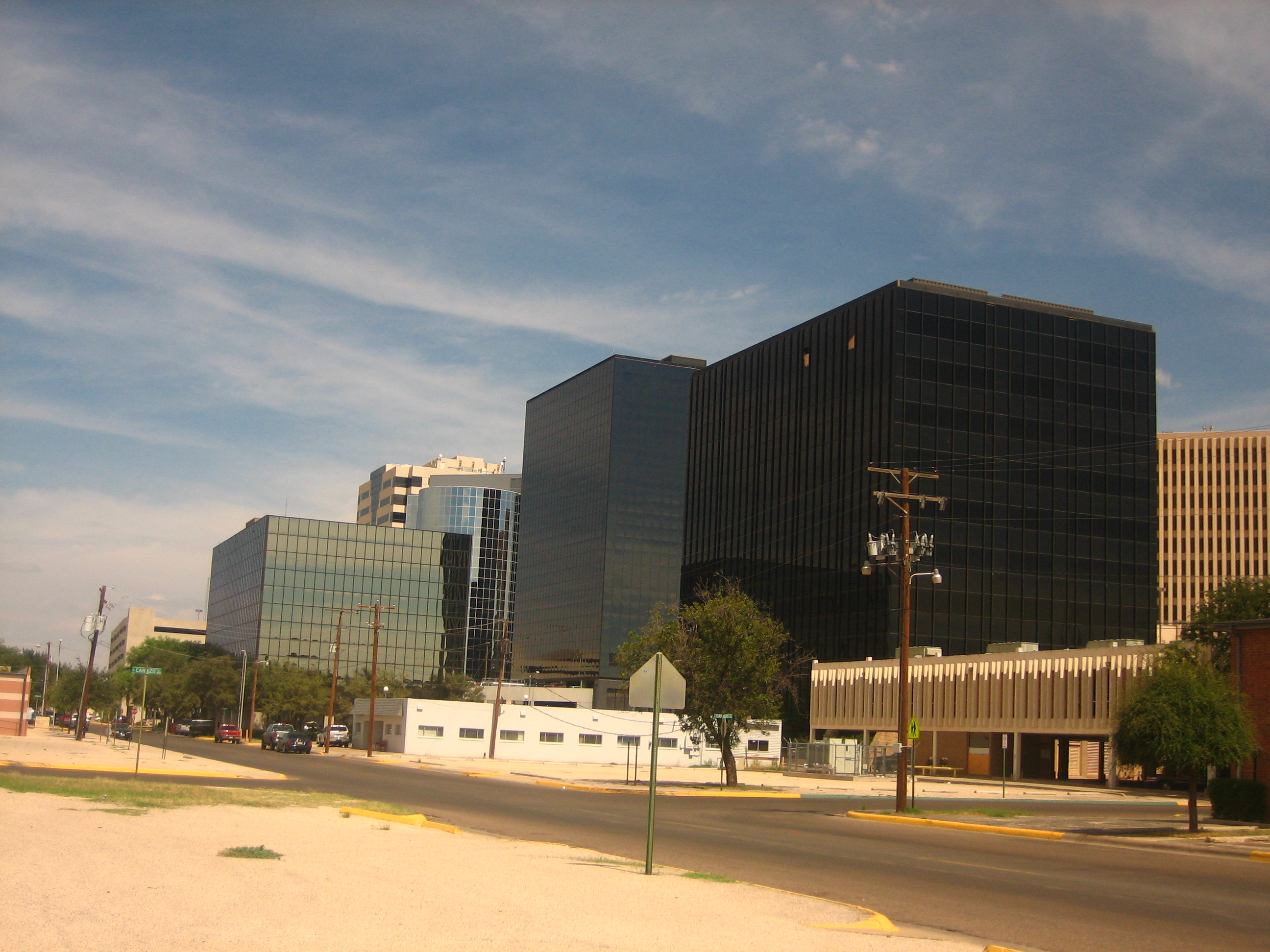 I took photo on July 10, 2008.Billy Hathorn (talk) 21:40, 6 July 2009 (UTC)